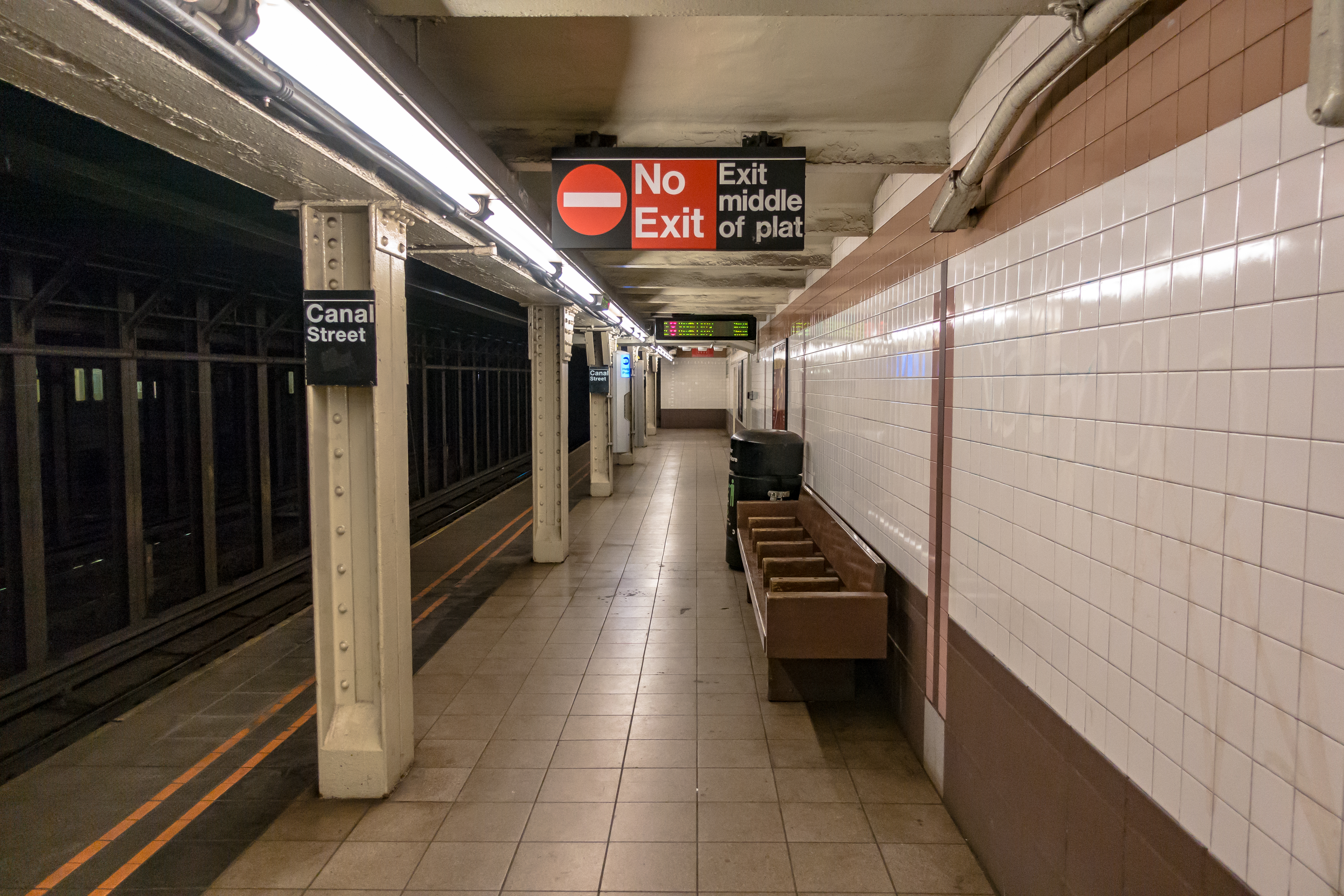 A photo by Billie Ward. (This work is licensed under a Creative Commons Attribution 4.0 International License. Please provide attribution and a link back to this web page in a manner that associates the image with the image credit.)